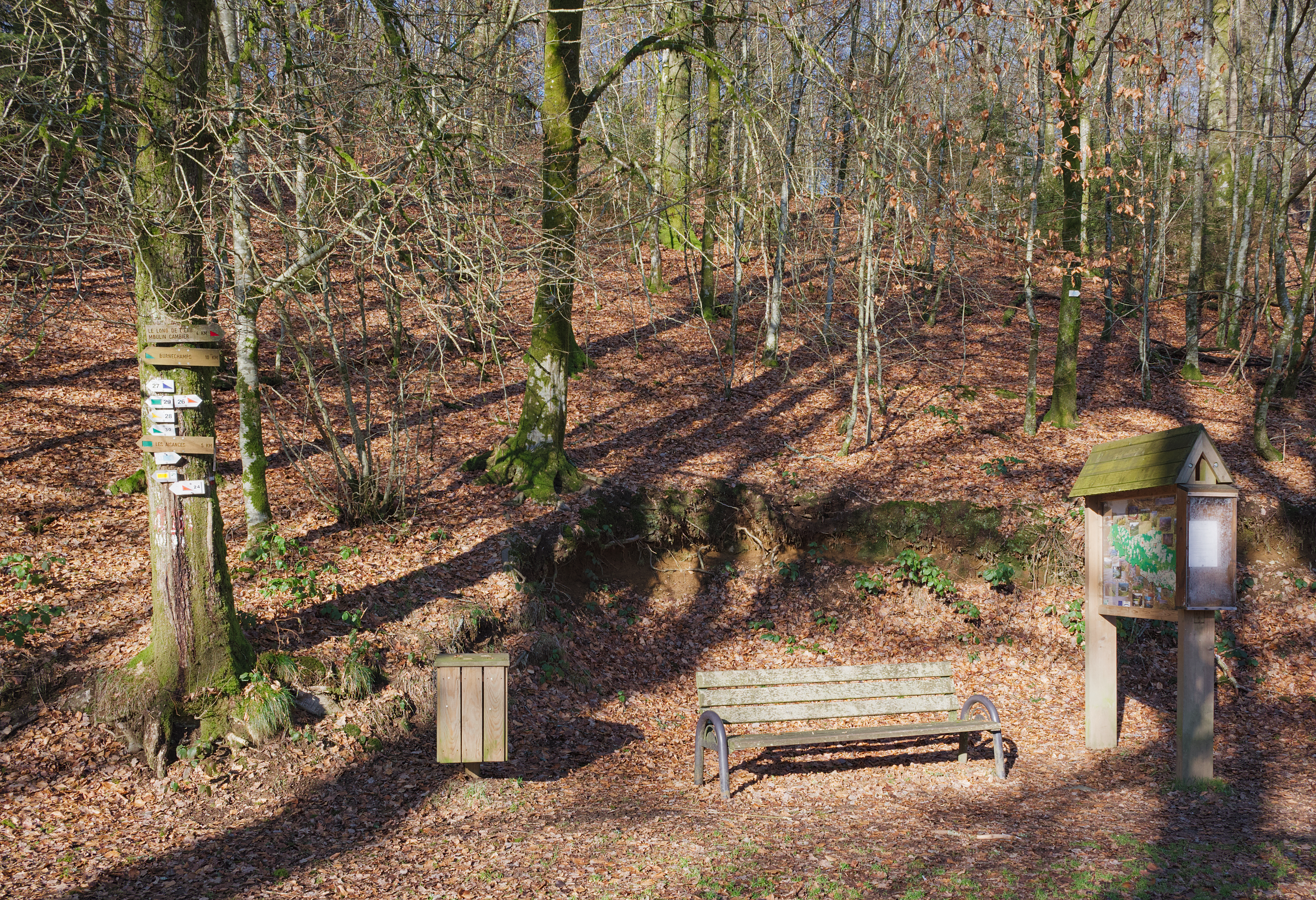 A map, a bench, a bin, and a tree featuring many trails signs on the GR-16 (and E3) in Chiny